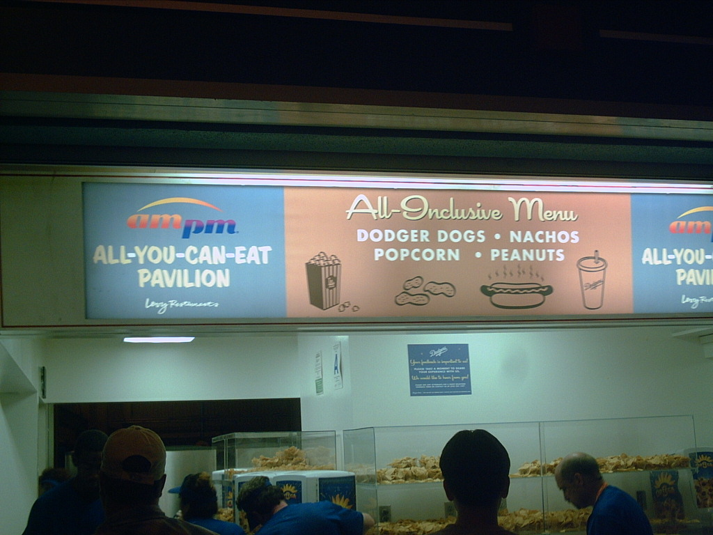 self-taken at Dodger Stadium Right Field Pavilion 8/1/07 04:16, 3 August 2007 . . Valley2city . . 1024 x 768 (205,544 bytes)